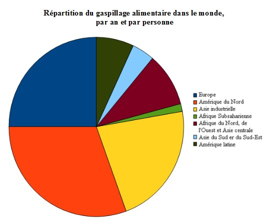 Food waste in the world by consumers